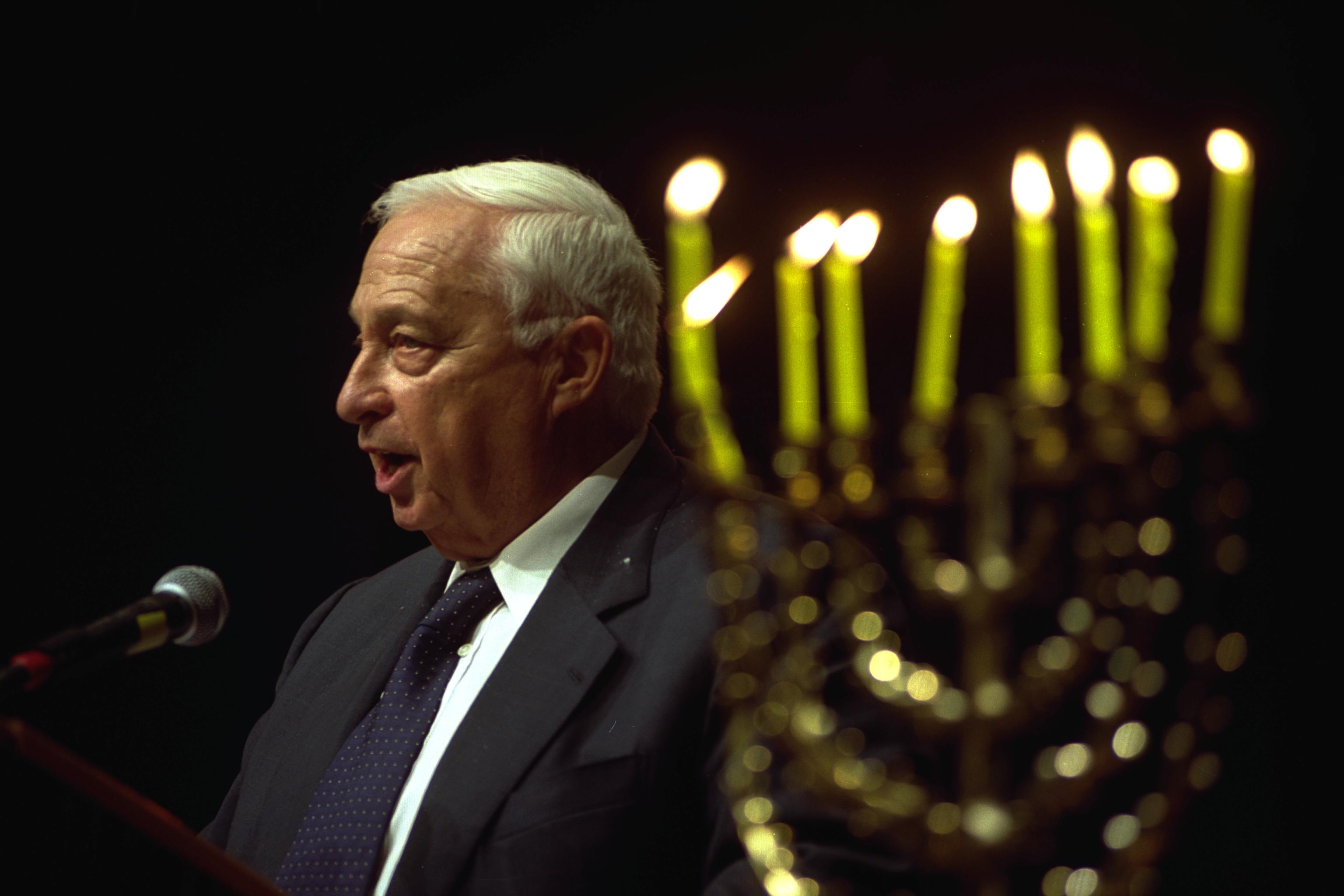 PRIME MINISTER ARIEL SHARON SPEAKING AT THE LEVY ESHKOL LITERATURE AWARD CEREMONY, AT ISRAEL MUSEUM IN TEL AVIV (16/12/2001) ראש הממשלה, אריאל שרון, נואם בטקס פרסי אשכול על שם לוי אשכול, במוזיאון ישראל בתל אביב Photo: Moshe Milner (1946–) Alternative names Miylner, Moše; Milner, Mosheh; Moshé Milner; Milner, M.; Mîlner, Moše; Miylner, MošehDescriptionIsraeli photographerצלם ישראליDate of birth 1946 Location of birth Germany Authority control : Q28750411 VIAF: 100999744 ISNI: 0000 0001 0804 0507 LCCN: n82072104 GND: 115699732 BNF: 15548788n WorldCat creator QS:P170,Q28750411 .